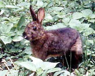 This is an image of a Japanese hare in brown pelage.